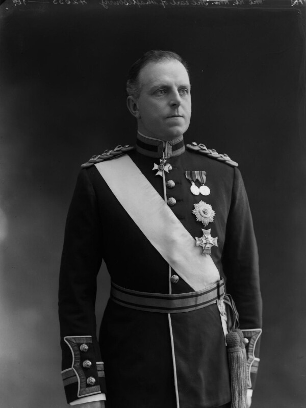 Portrait of Lord Shaftsbury